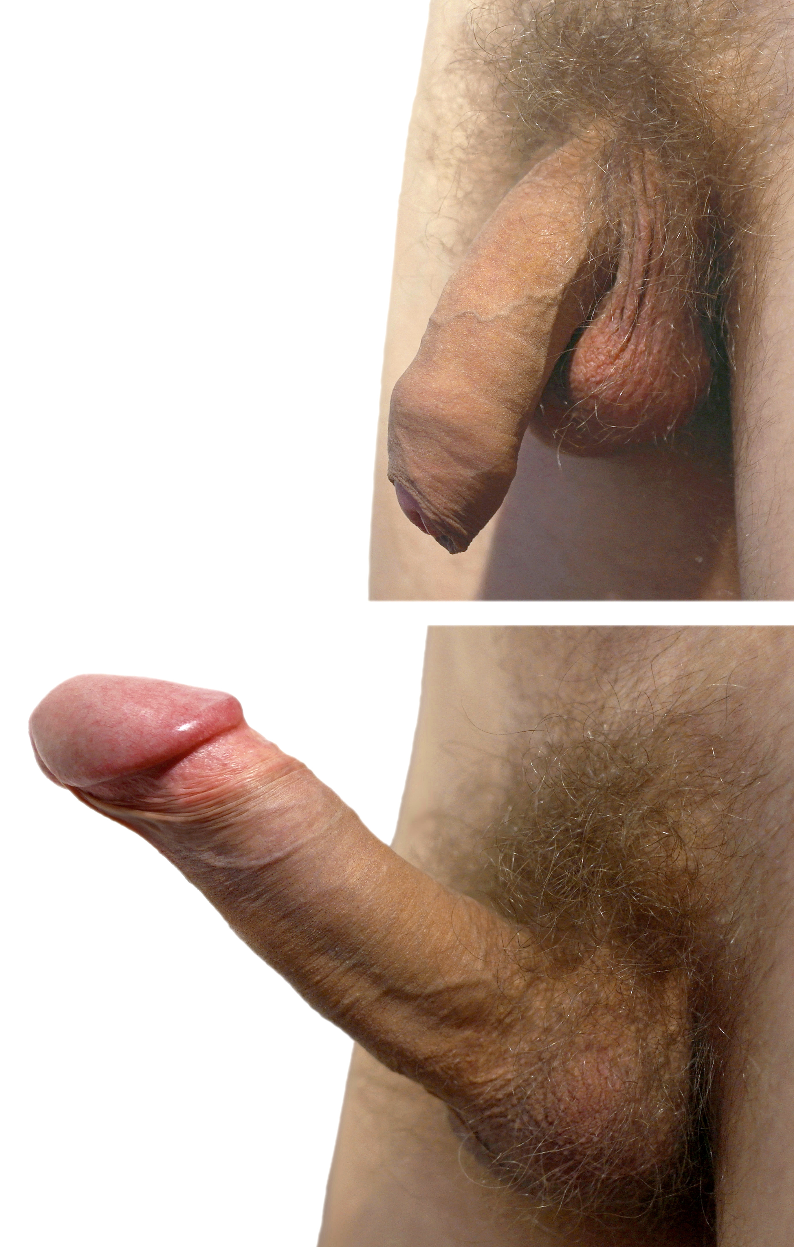 Comparison of flaccid and erect penis with foreskin. Genitalia of a Southern-European male, 30 years. Added upon user request as version of HQ_SAM_SA.jpg without shadows (after removal of most shadows in that picture obsolete). Penis length: flaccid approx. 9.5 cm = 3.7 in, erect approx. 16.3 cm = 6.4 in, measured upside Penis width: flaccid approx. 3 cm = 1.2 in , erect approx. 3.8 cm = 1.5 in Penis circumference: flaccid approx. 9.5 cm = 3.7 in, erect approx. 12.3 cm = 4.8 in Read my comments here: 123GLGL